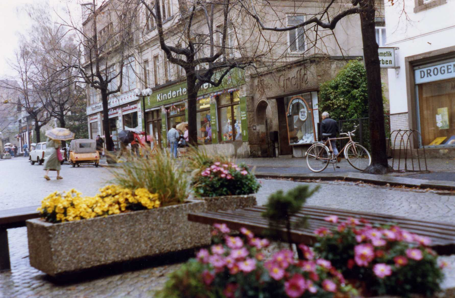 Across the road from the next photo, the three wheeler motorised invalid carriage is parked outside the Kaufhaus Kontakt department store. In green, the fascia of Kindertextilen, and behind the bicycle a pre-war shop front of Grosse.